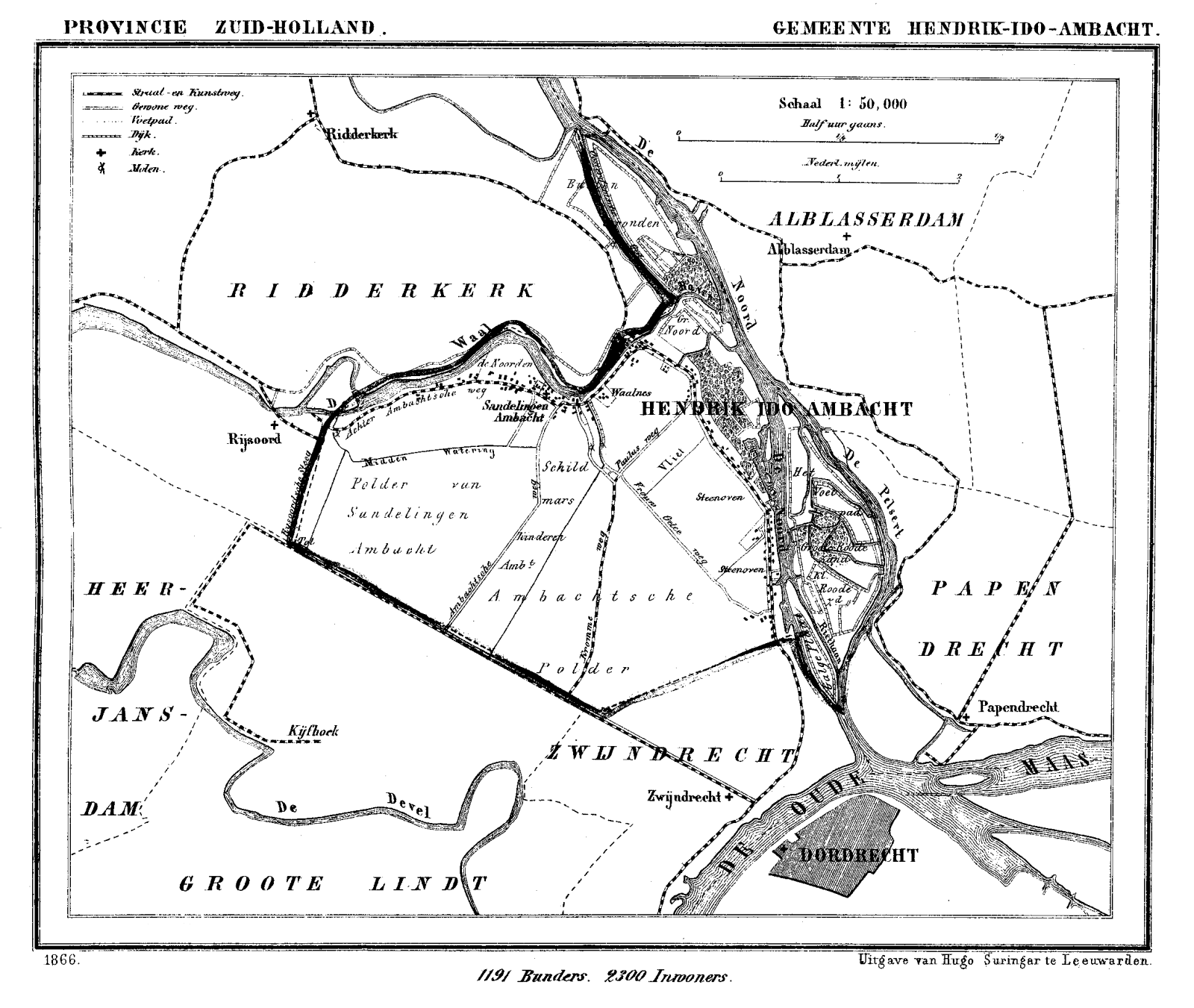 Historic map of Hendrik Ido Ambacht, the Netherlands